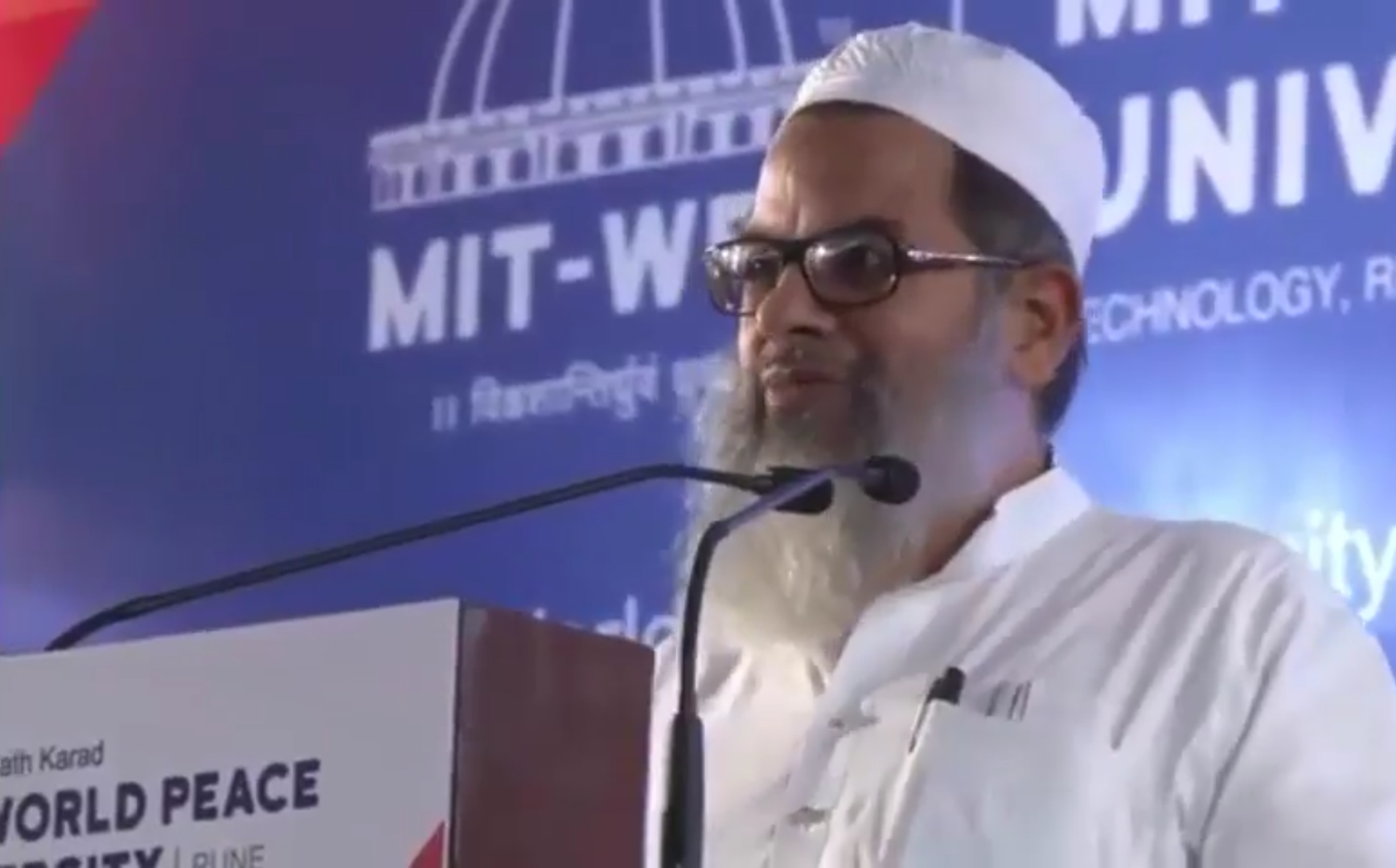 Maulana Mahmood Madani of Jamiat Ulema-i-Hind